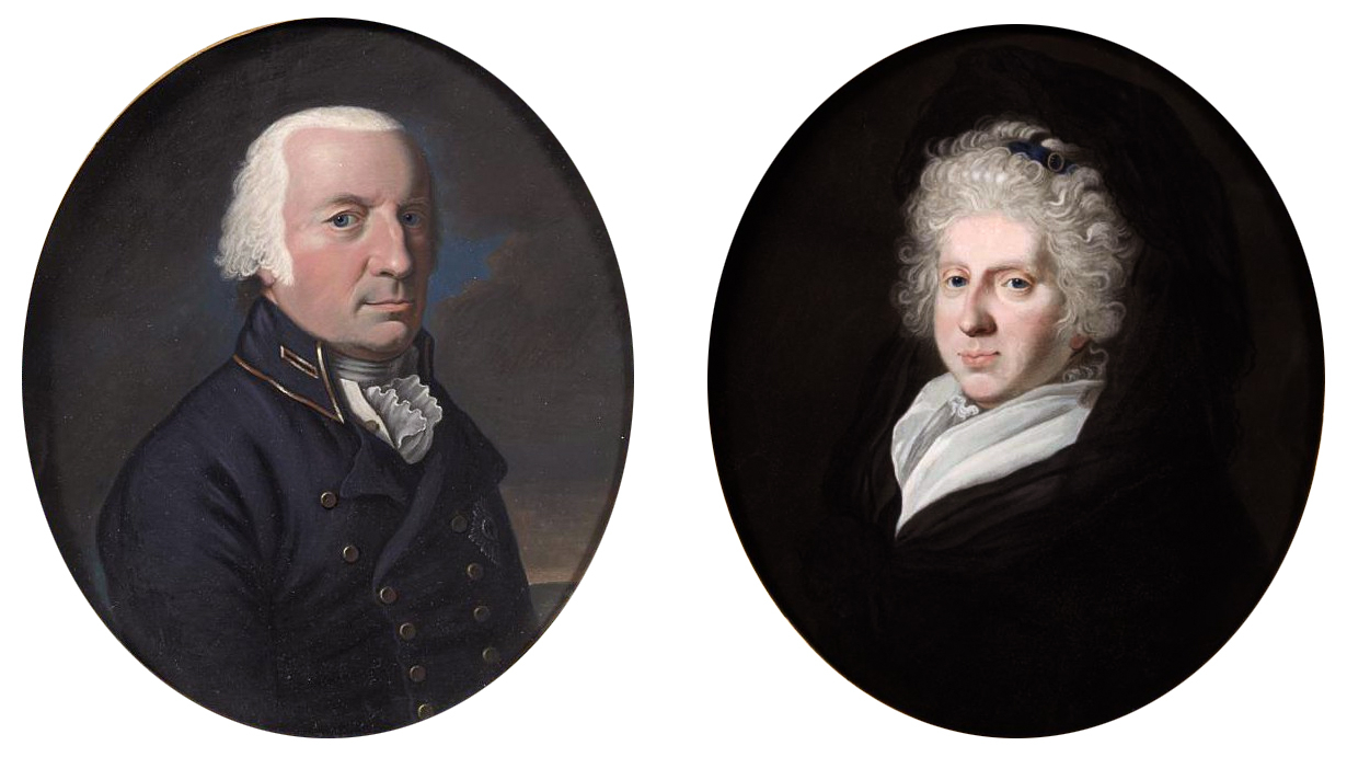 Portrait of Charles William Ferdinand, Duke of Brunswick (1735-1806), bust-length, in a military costume; and Portrait of his wife Princess Augusta of Great Britain (1737-1813), bust-length, in a *black dress with a white chemise